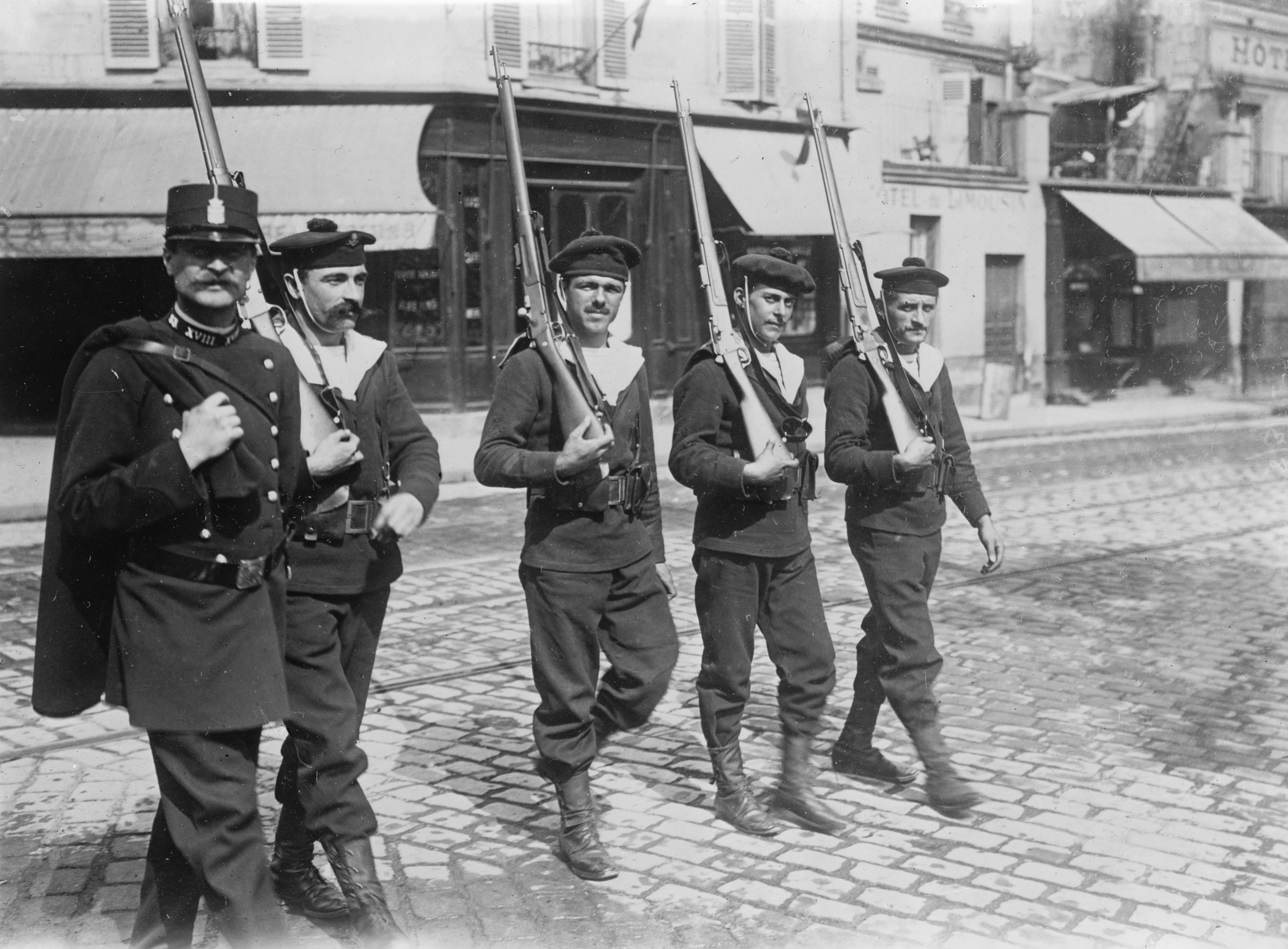 Naval recruits police, Paris Photograph shows French naval recruits with a police officer, Paris, France, at the beginning of World War I.